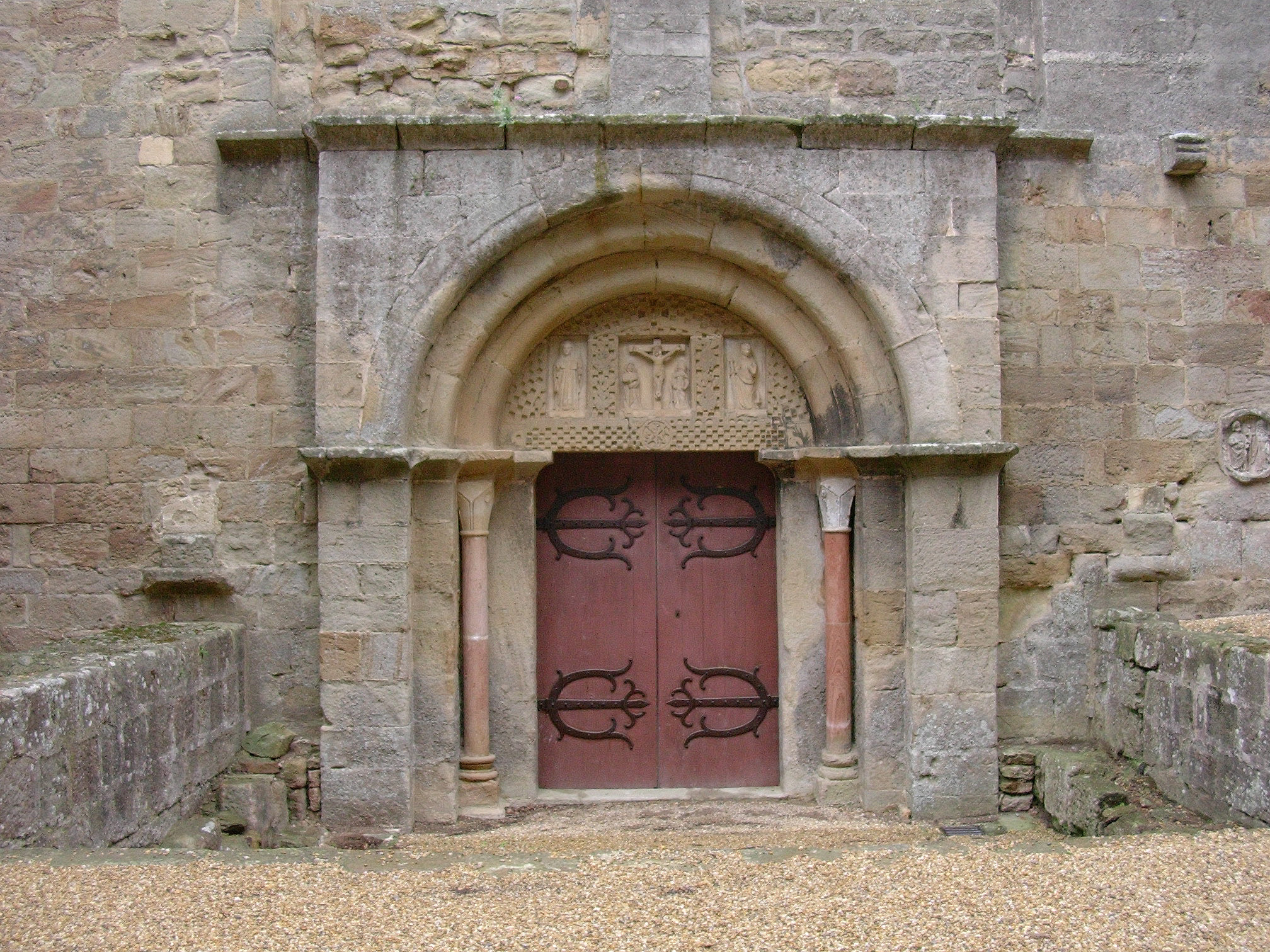 Romanesque door of Fontfroide abbey